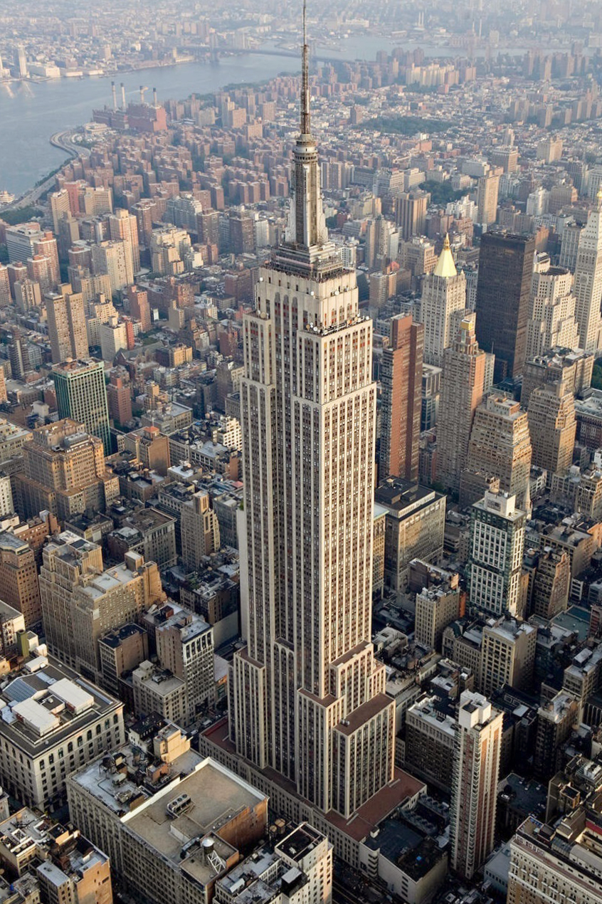 This file has been extracted from another file: Empire State Building, New York, NY.jpg